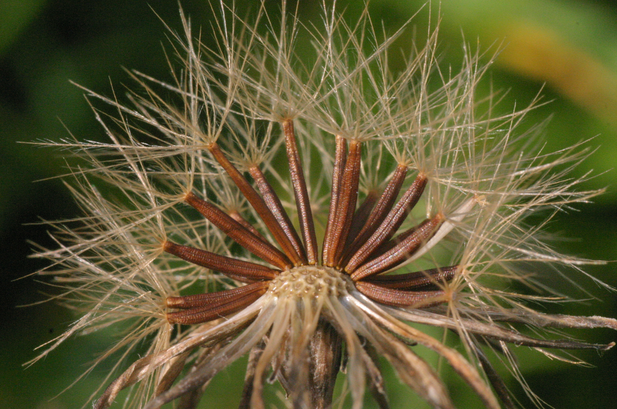 Scorzoneroides autumnalis